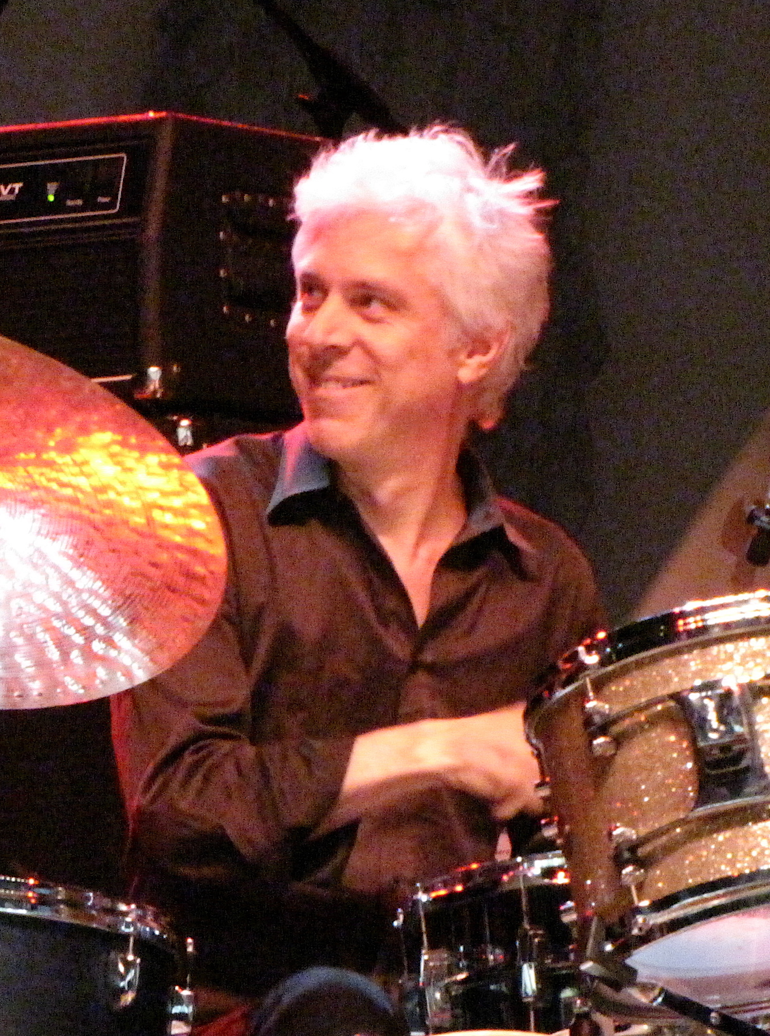 I so rarely have gotten good shots of Bill because he's always behind Robyn, so it was nice to be able to get a couple here.....